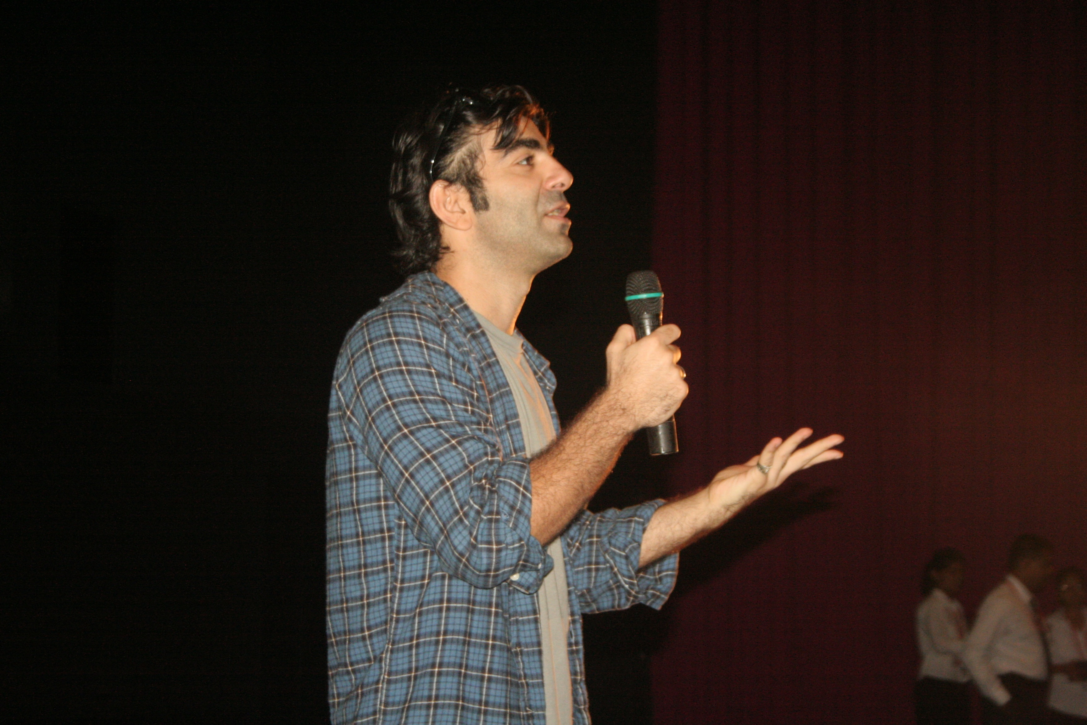 Fatih Akin introducing his film 'Soul Kitchen' at the 41st International Film Festival of India, Goa 2010